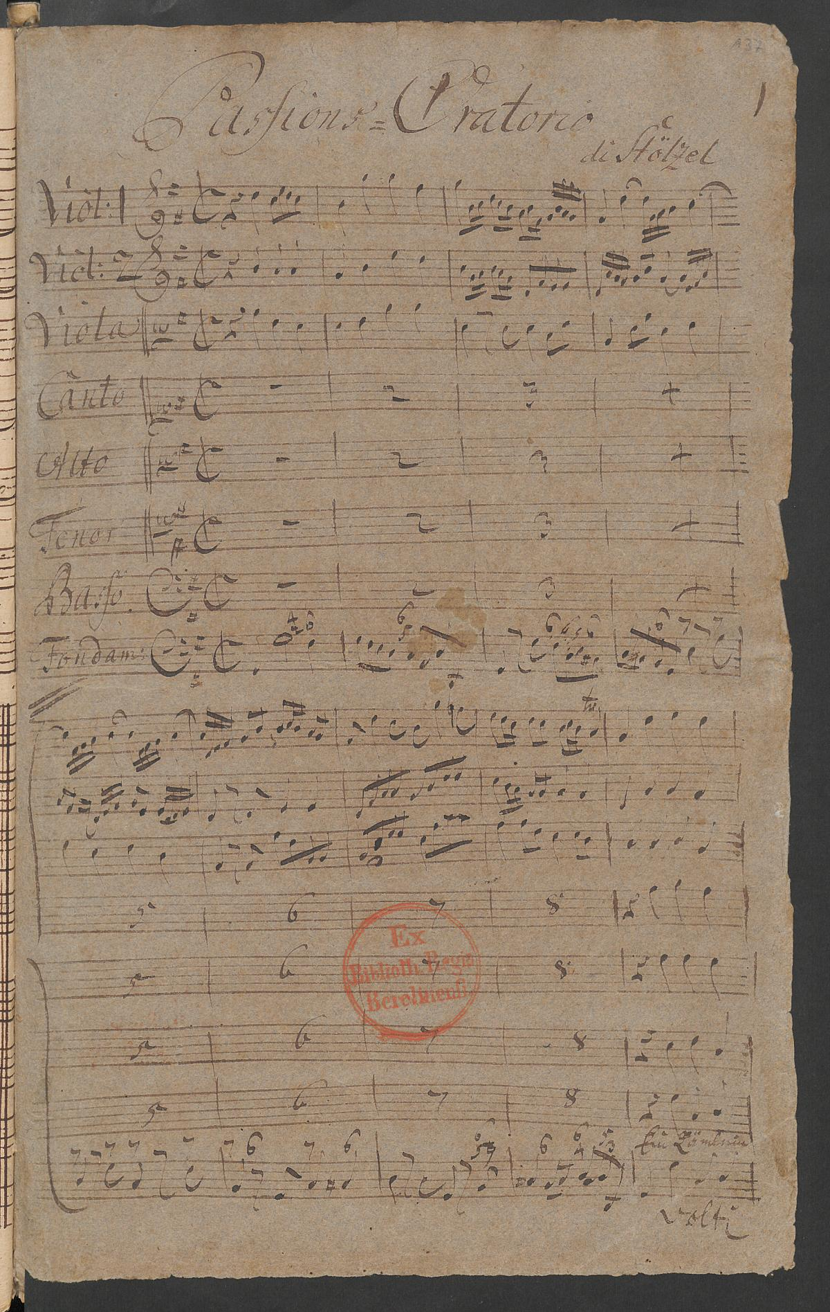 First page of a circa 1750 manuscript copy of Gottfried Heinrich Stölzel's Ein Lämmlein geht und trägt die Schuld, a passion oratorio which was originally composed for Gotha as Die leidende und am Creutz sterbende Liebe Jesu (1720)